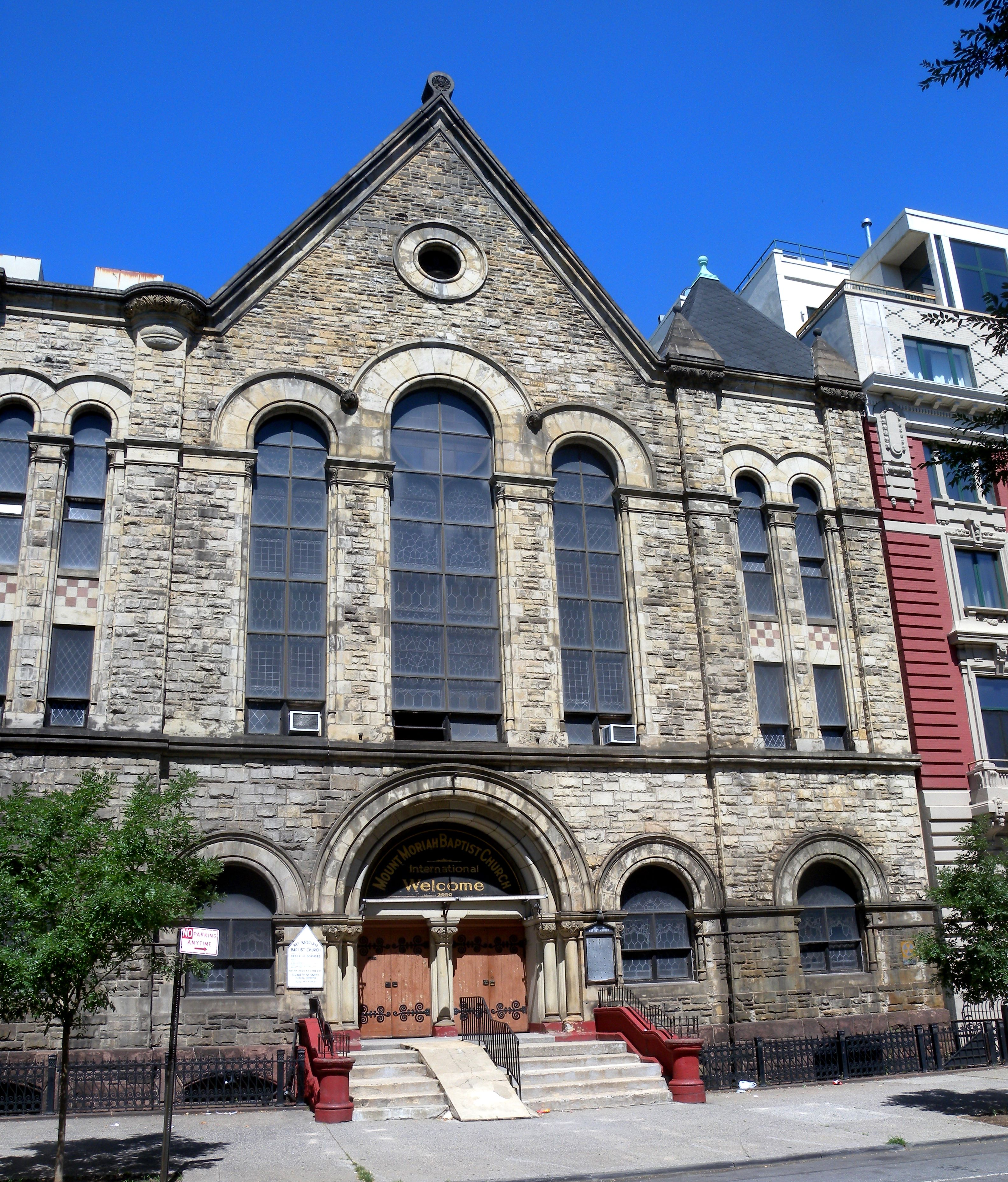 Looking northwest at Mt Moriah Baptist Church on a sunny late morning. Replaces File:Mt Moriah Baptist Harlem jeh.JPG which was at a bad time of day.